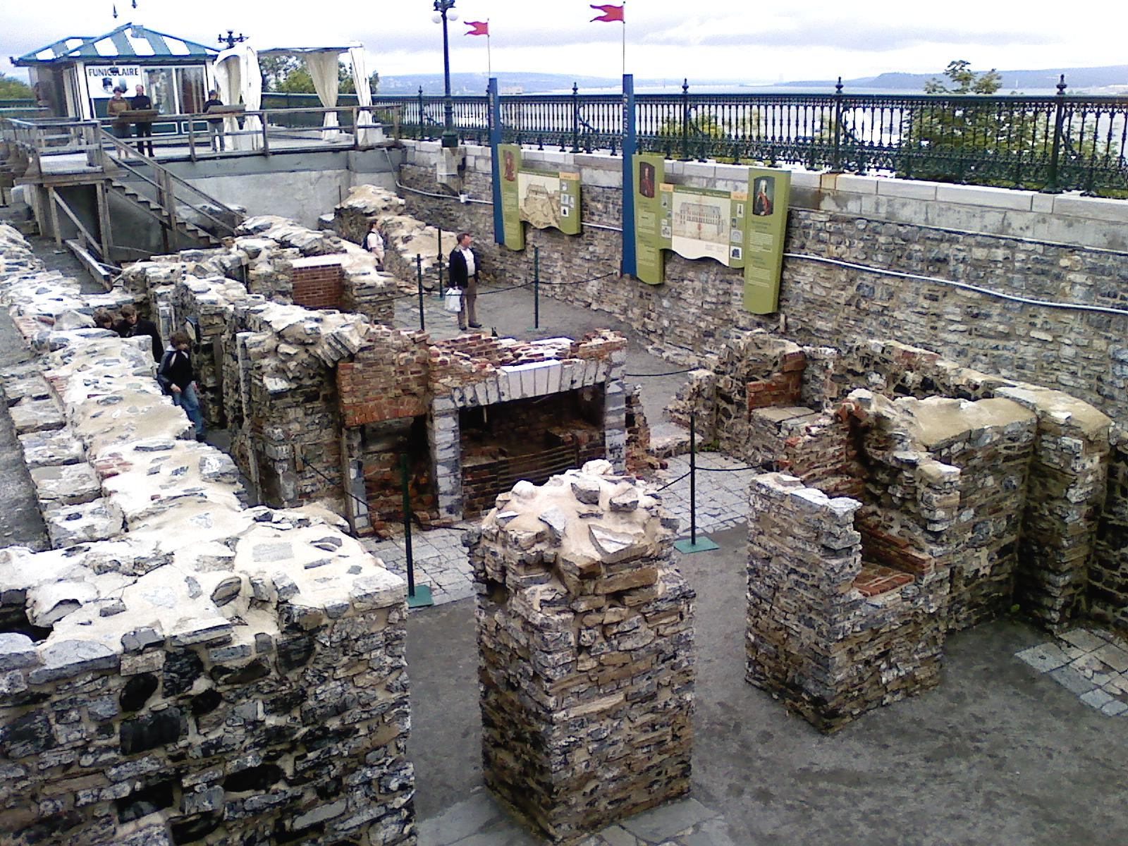 Old ruins in Quebec City, Terrasse Dufferin